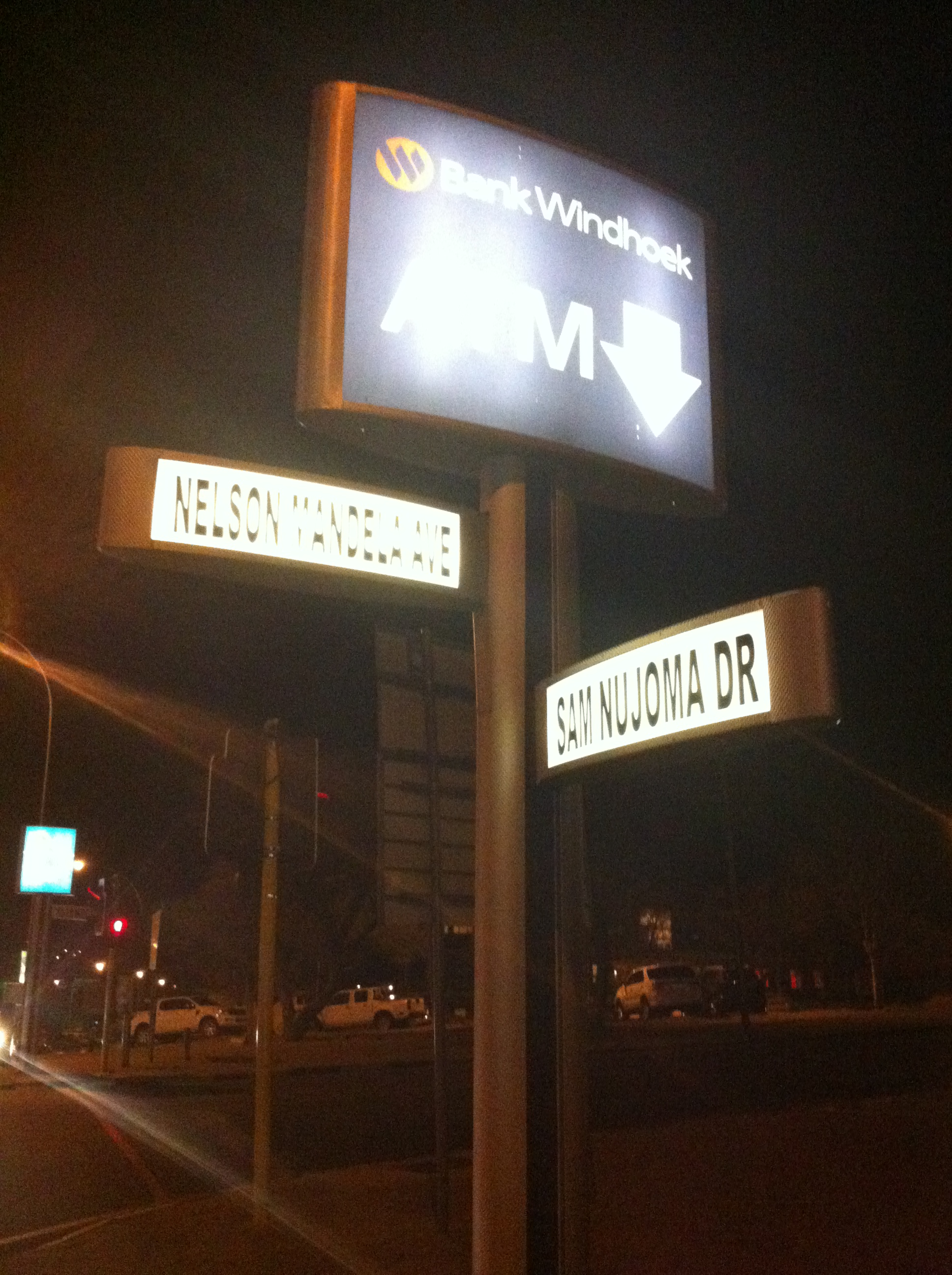 Illuminated street signs in Klein Windhoek, Namibia (President´s Corner)